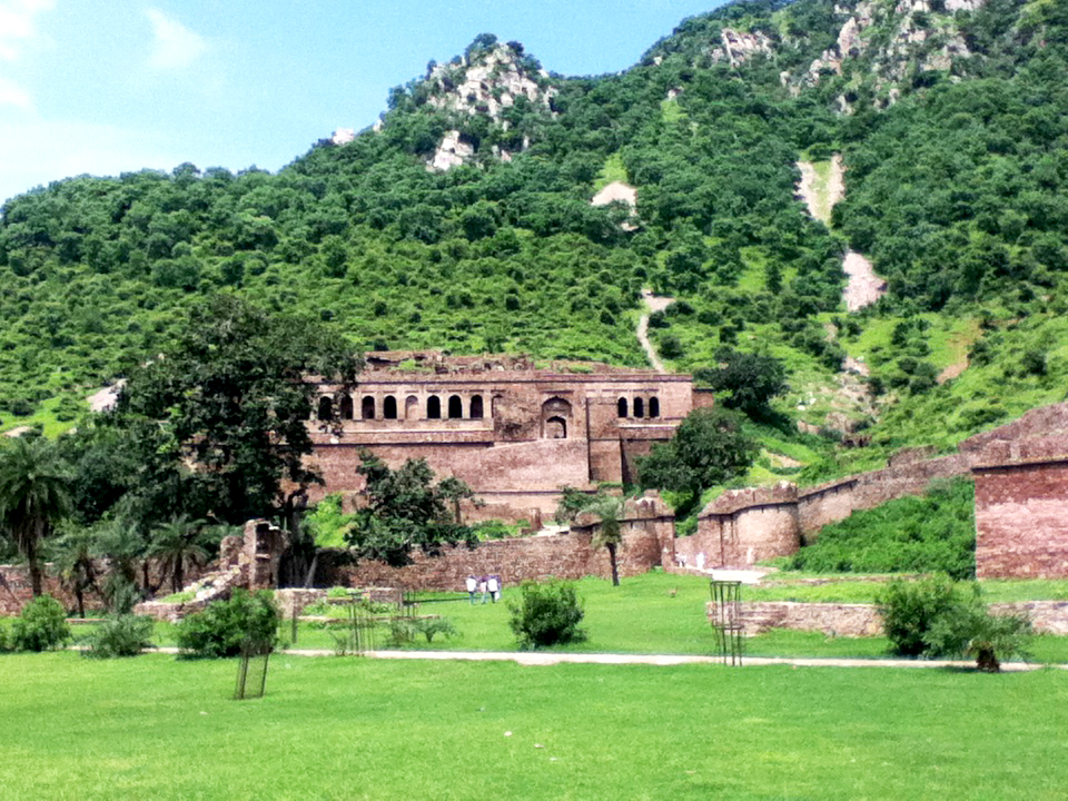 Bhangarh Fort